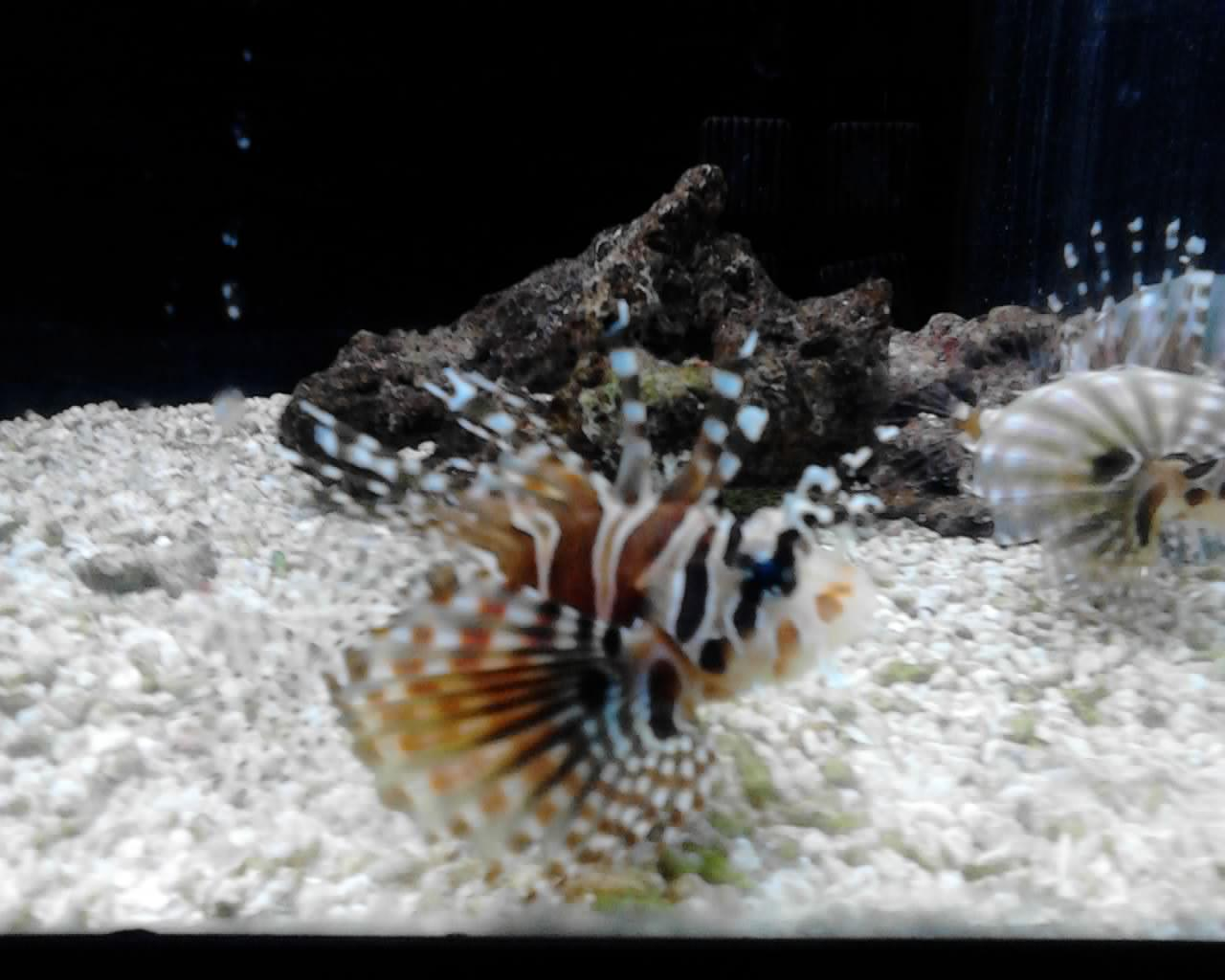 Pterois volitans